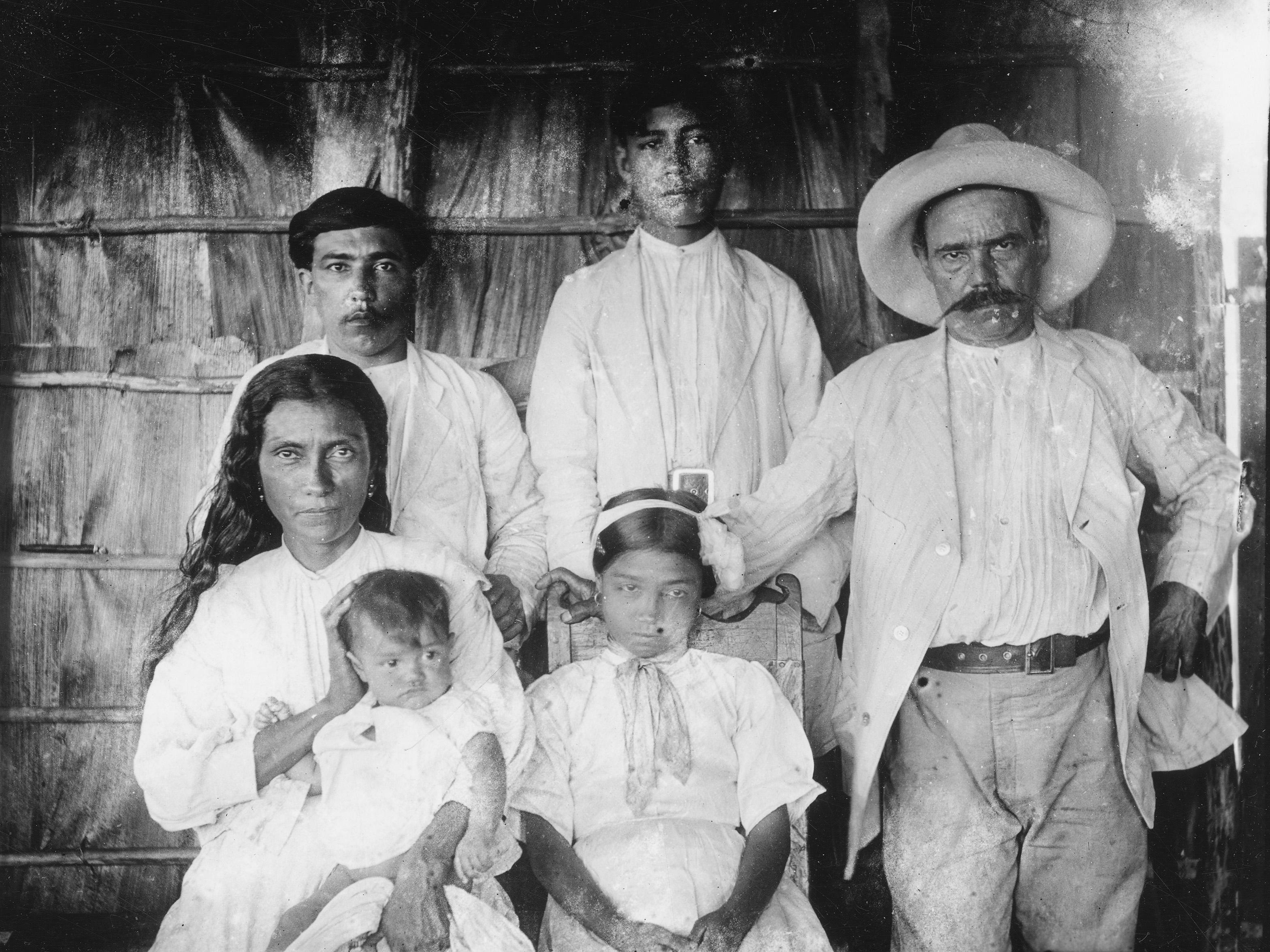 1919 The Barrientos family in Baracoa, Cuba Аҧсшәа: 1919 La familia Barrientos en Baracoa, Cuba